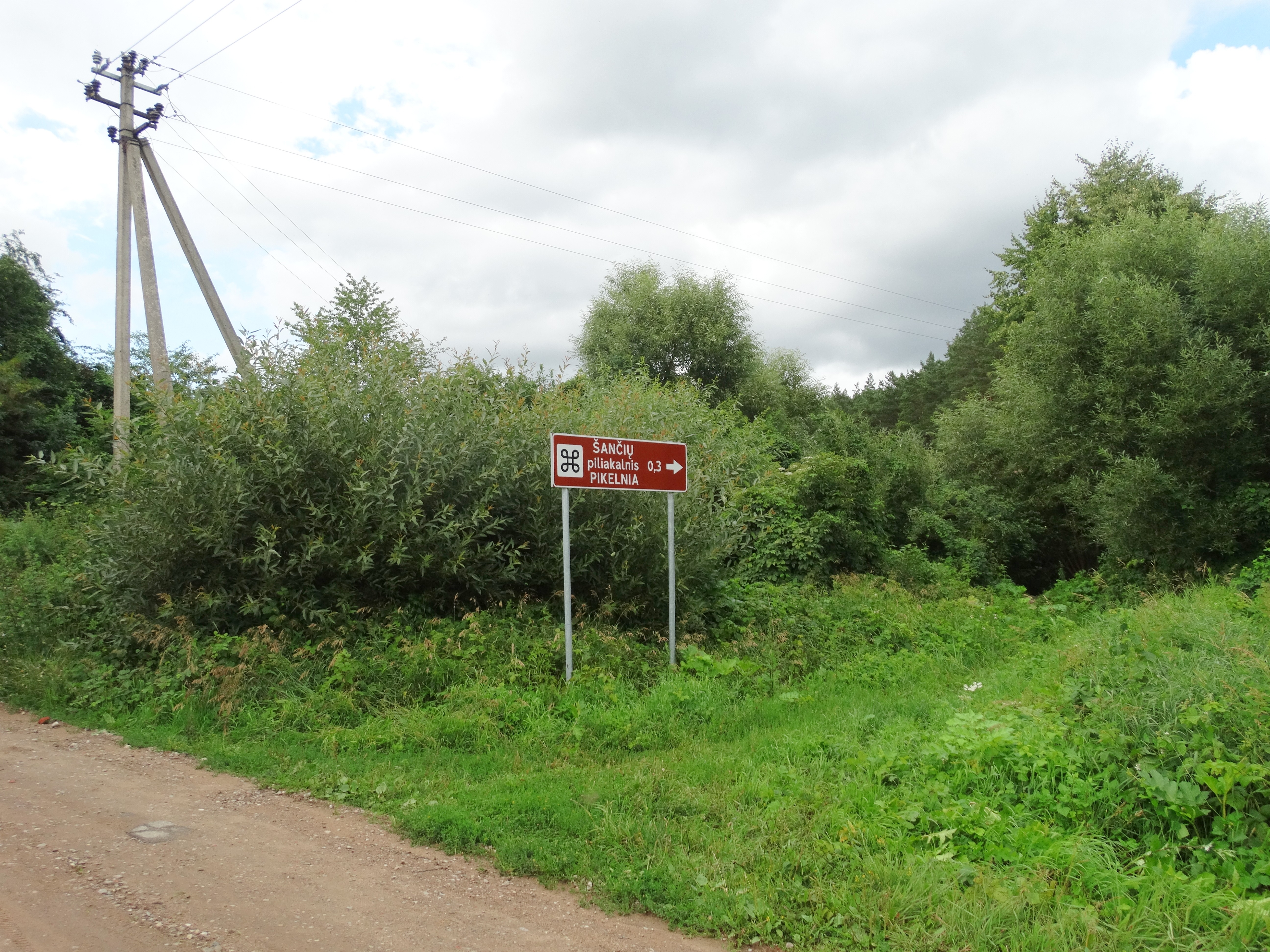 Šančiai hillfort, Kaunas district, Lithuania